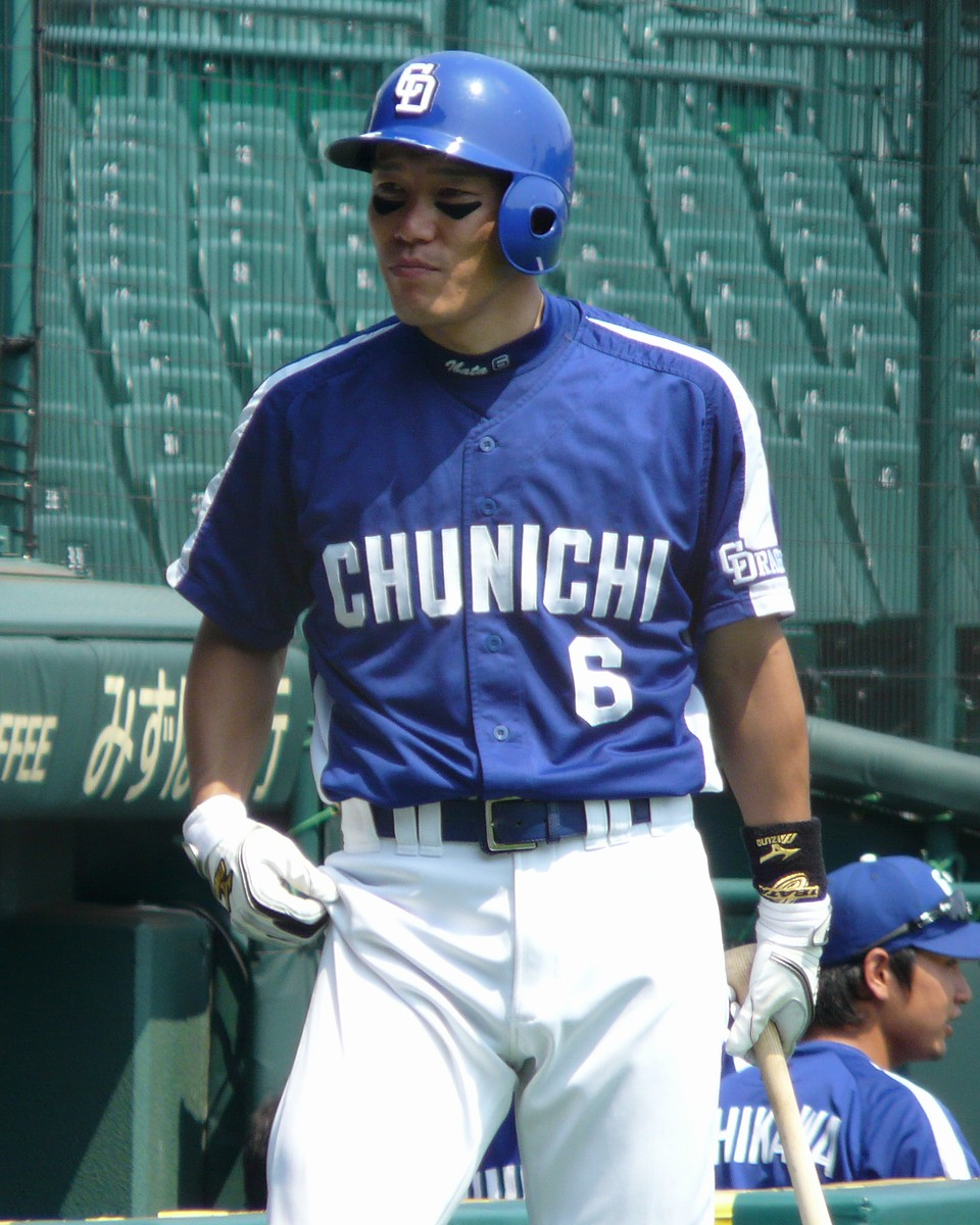 Hirokazu Ibata, infielder of the Chunichi Dragons, at Hanshin Koshien Stadium.